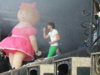 Taken by myself with my digital camera; more than happy to have it used as a visual representation of the festival.